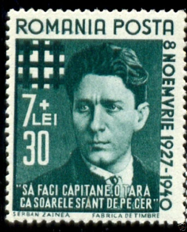 Stamp of Romania. 1940 showing Iron Guard leader Corneliu Zelea Codreanu.